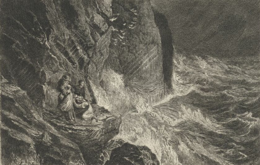 Illustration from "The Antiquary" by Sir Walter Scott.